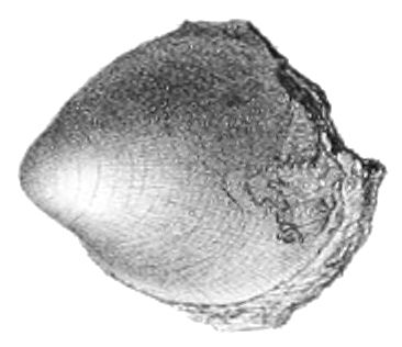 Drawing of dorsal view of the shell of Helcionopsis radiatum, synonym Tryblidium radiatum. Head region is on the left.